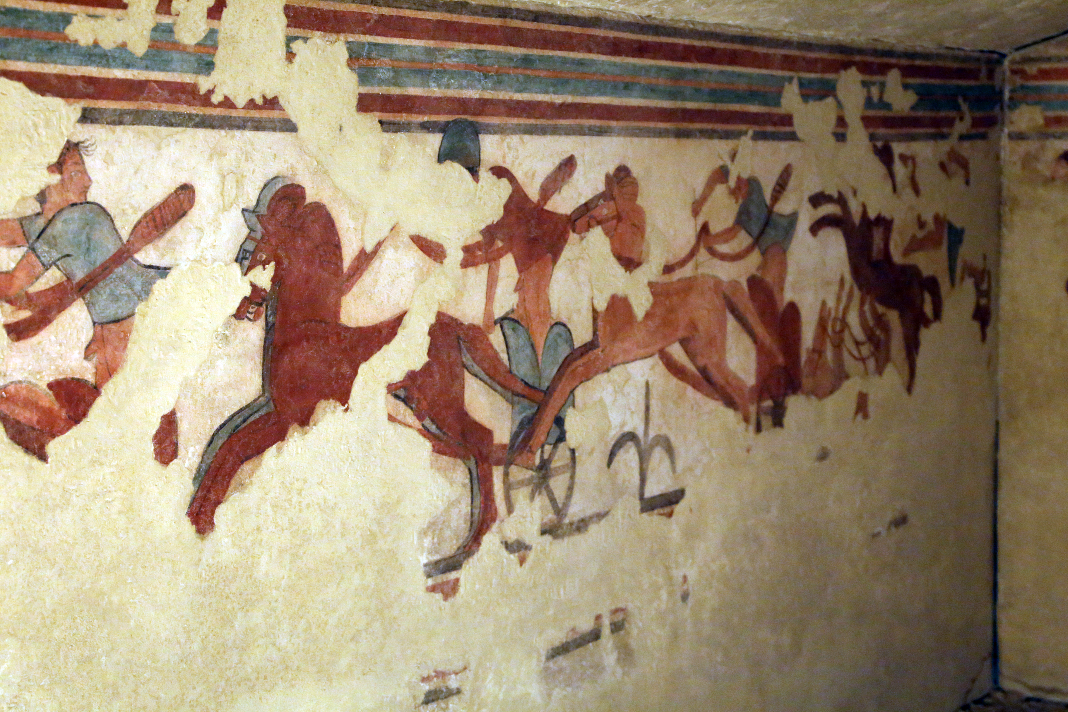 Etruscan antiquities the Museo archeologico nazionale (Tarquinia)